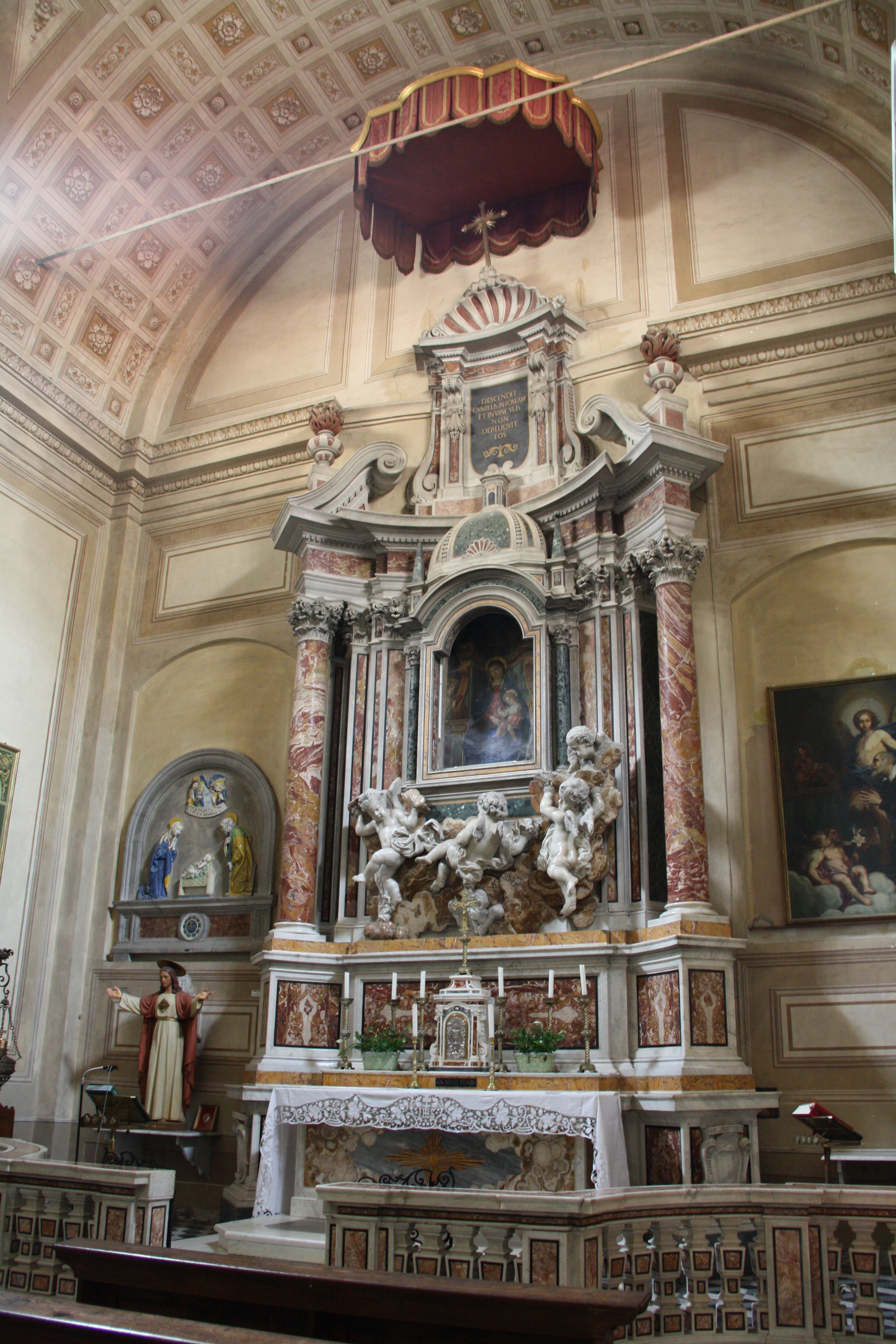 Italy, Tuscany, Massa, St. Francis Cathedral. The Ducal Chapel or “Chapel of the Blessed Sacrament” was built by the will of Dukes Alberico II and Carlo II between 1687 and 1694 in late Roman Baroque. It was designed by Domenico Martinelli. The Chapel is dedicated to the “Nativity of Mary”, the altar was built with polychrome marble and above it is the painting “Madonna with Child” by Pinturicchio of 1490 – 1492. The altar is enriched with angels among alabaster clouds. Besides on the right side is a painting depicting San Filippo Neri while praying by Carlo Maratta.